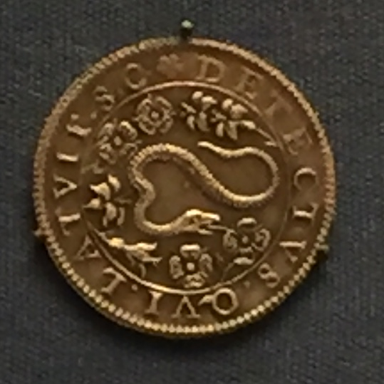 Silver medal minted in Holland in 1605 to celebrate the failure of the Gunpowder Plot in England. The snake represents the catholic Society of Jesus, whom the Protestants accused of being behind the plot. British Museum, London, UK.